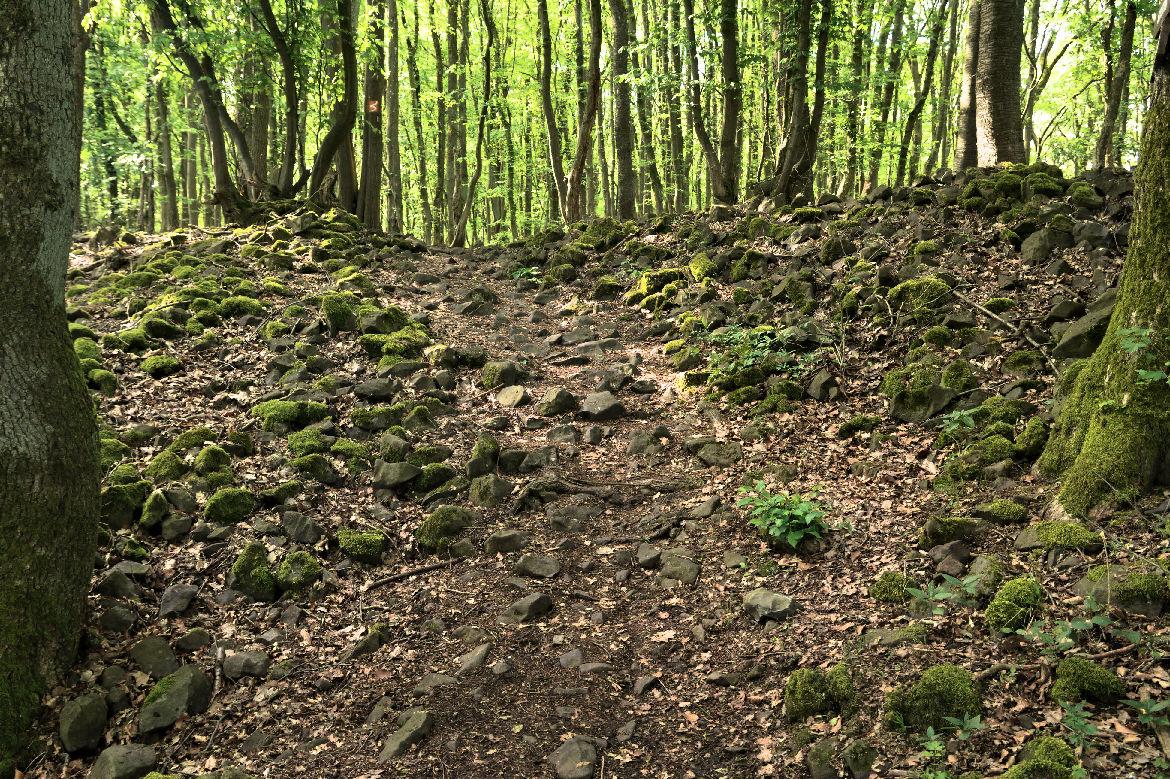 Floor dotted with stones near Hildesgardisfelsen on Dornburg plateau. A celtic oppidum in Limburg-Weilburg county, Hesse, Germany